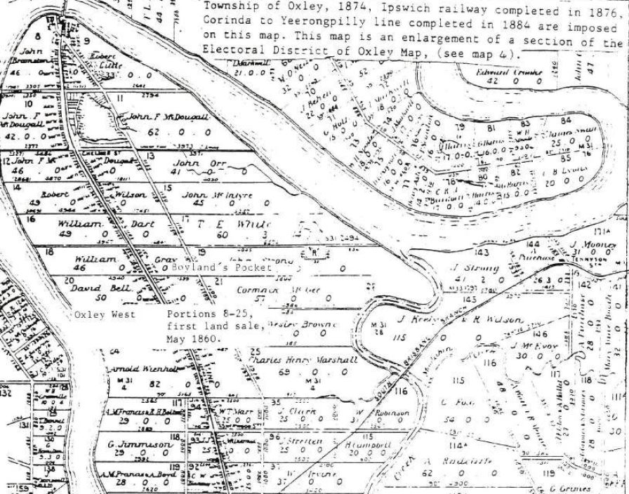 Subdivision map of land in what was called West Oxley in 1860 which now constitute the suburbs of Coorinda, Sherwood, Graceville and Chelmer.